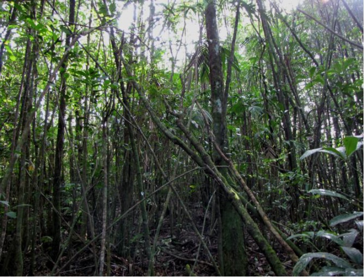 Swamp forest in Bauru, SP, Brazil